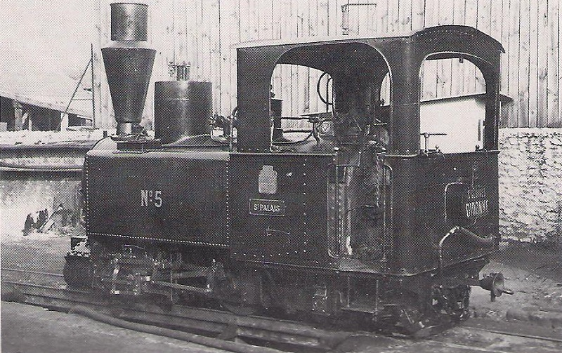 Decauville N° 141 of 1891 as No. 5 'ST. PALAIS' at the Dépôt in Royan